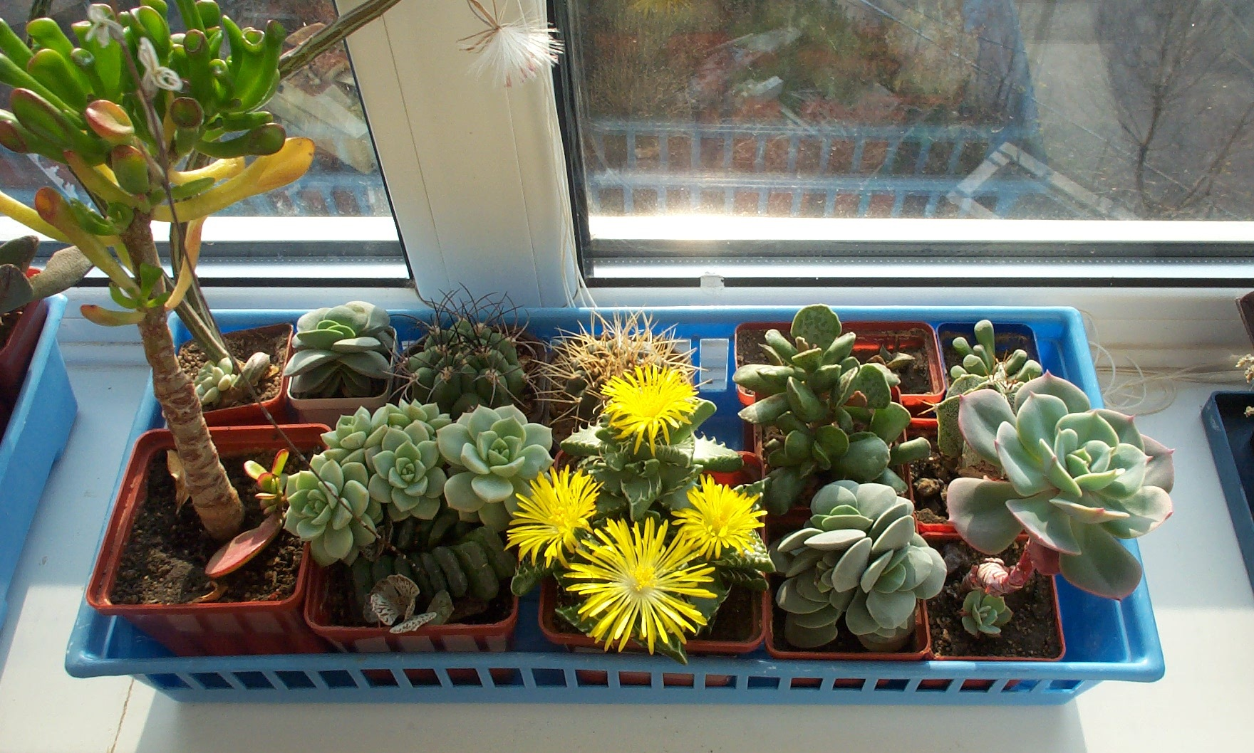 A small collection of succulents, faukaria blooming